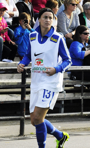 Brazilian footballers Gislaine (13), Marta (10) and Fabiana (19)